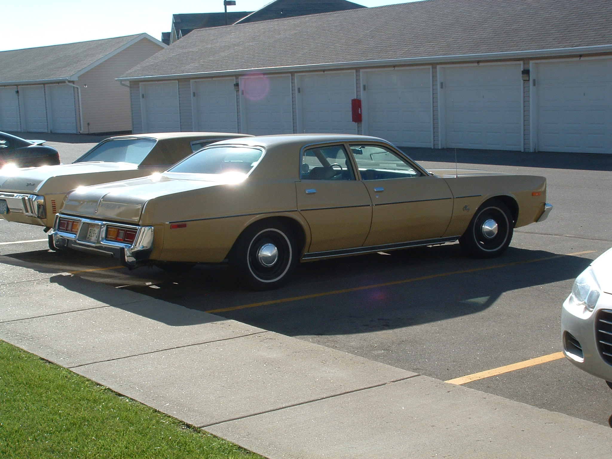 1978 Plymouth Fury